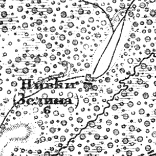 Zelen on the map "Военно-топографическая карта Российской Империи" (known as "Schubert's map"), XX 5, 1866-1887 (issued in 1911).